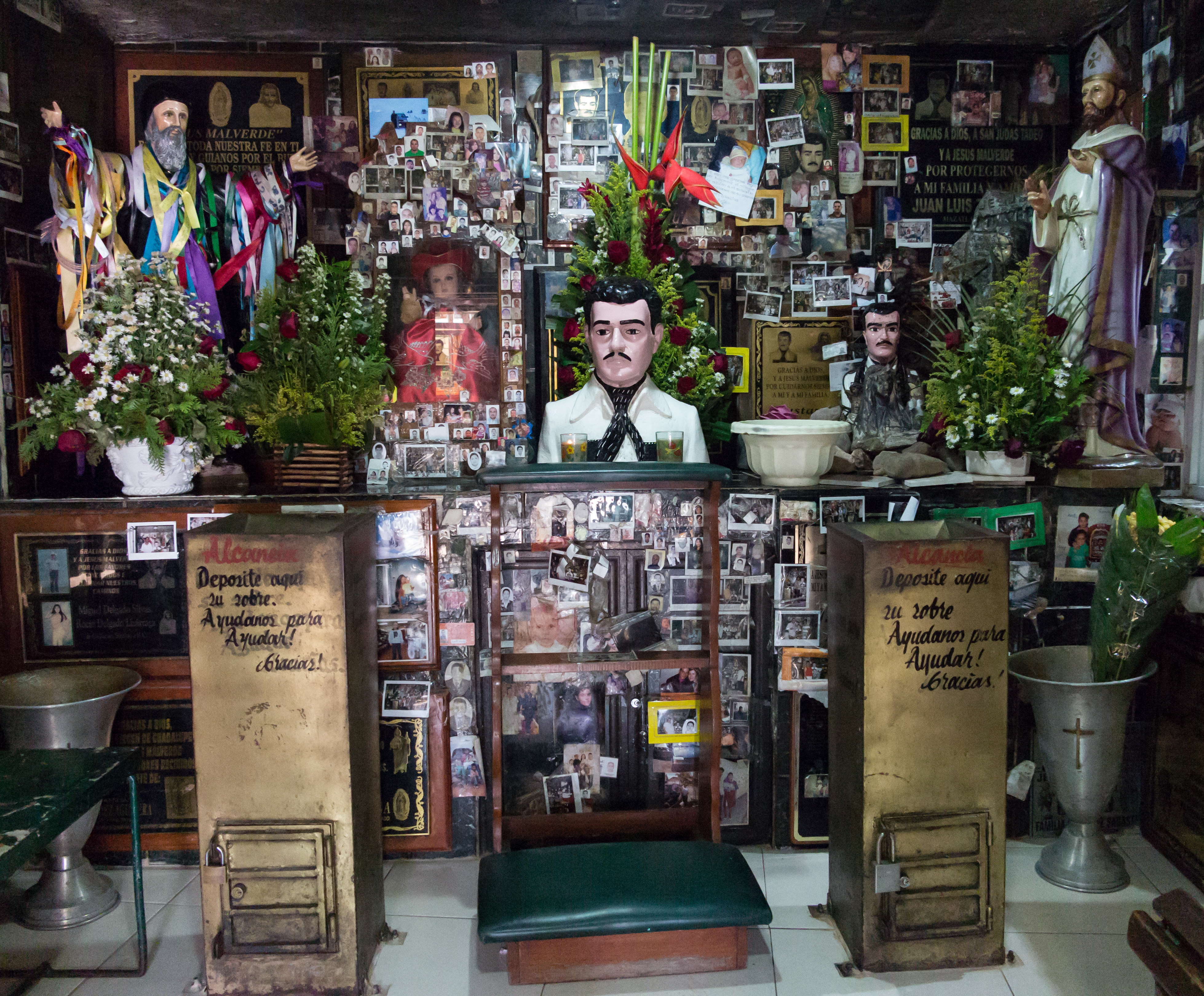 Jesus Malverde shrine ( known as a type of Mexican Robin Hood and/or protecting saint of the poor in Culiacan, Mexico